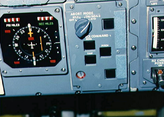 Close-up view of a portion of the F6 forward flight station panel. Photo focuses on the sub-panel controlling the shuttle ascent abort mode, RCS firing command indicators and the Range Safety Arm/Safe light. The picture highlights the abort selector in the ATO position, as it was used in a successful Abort to Orbit on this flight, STS-51-F.